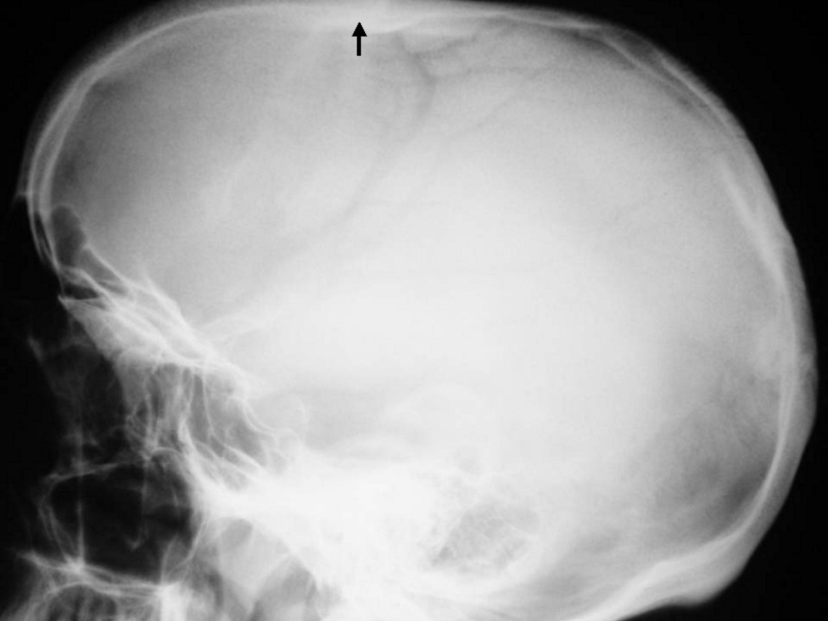 Lateral radiogram of the skull showed thick and sclerosed skull vault